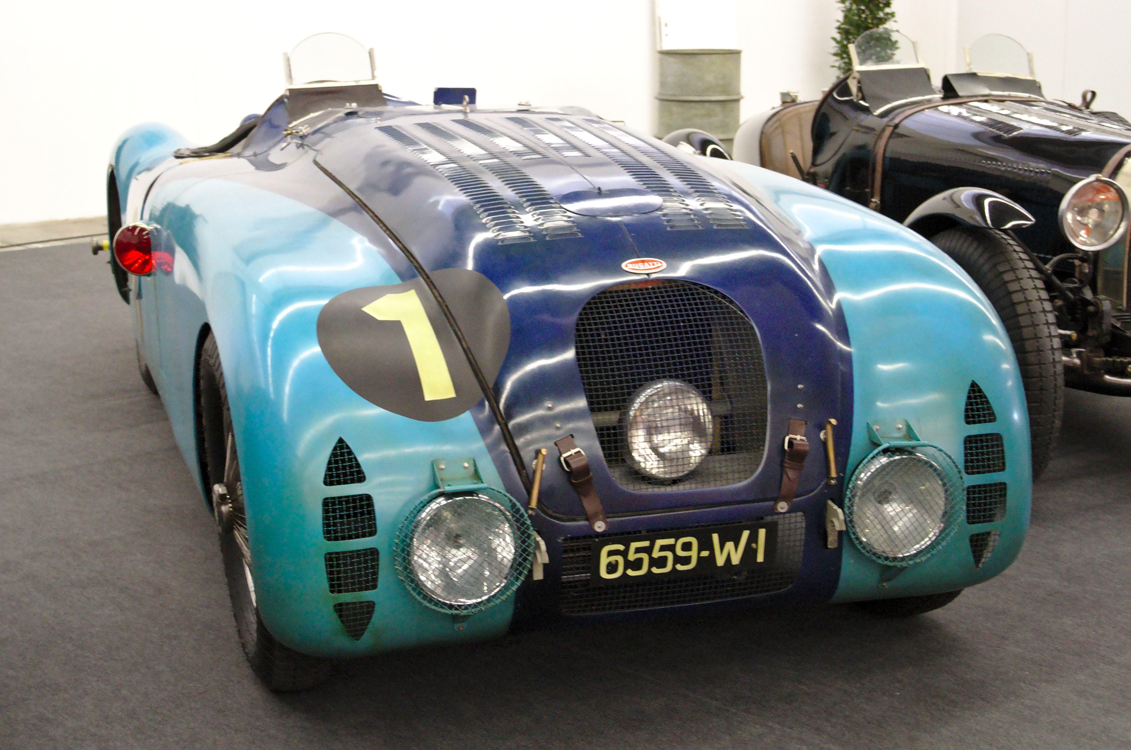 Bugatti_Type_57_G at IAA 2019